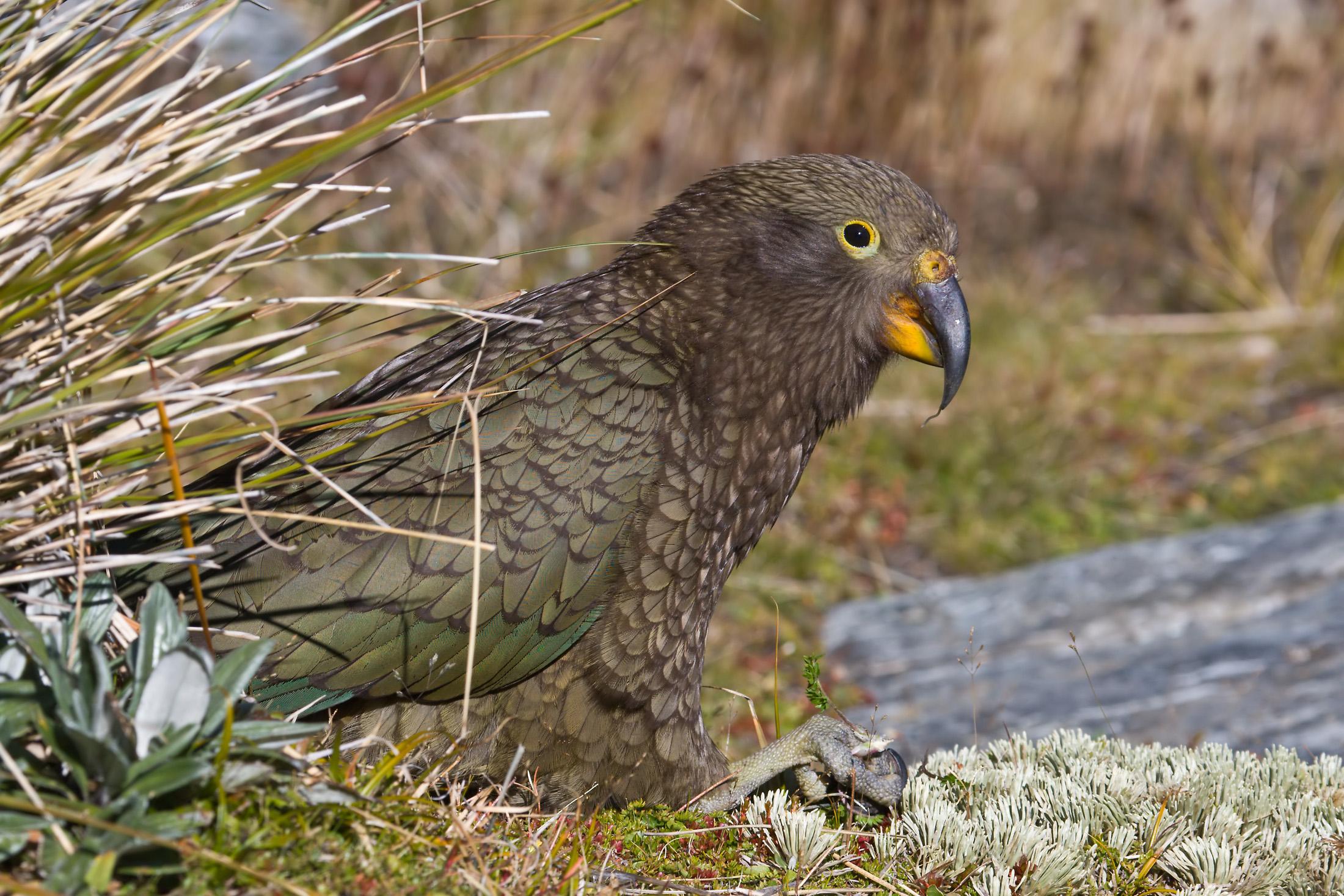 Nestor notabilis, A juvenile Kea in its natural environment on "The Remarkables" near Queenstown, New Zealand.